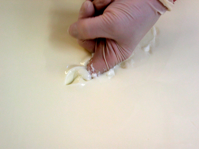 Shows testing of the Setting of cheese curd during the manufacture of chedder cheese